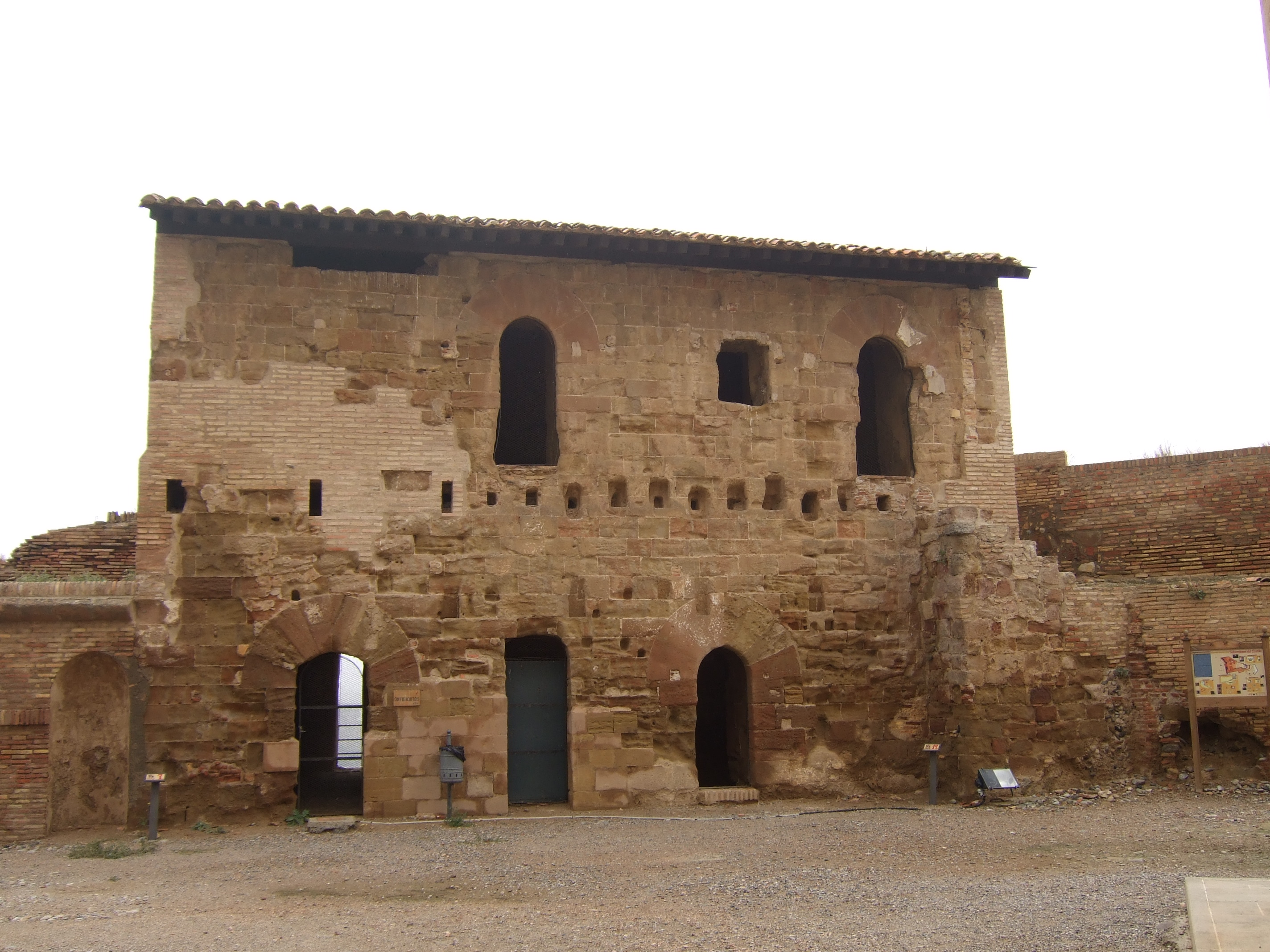 Castle of Monzon (Aragon, Spain)